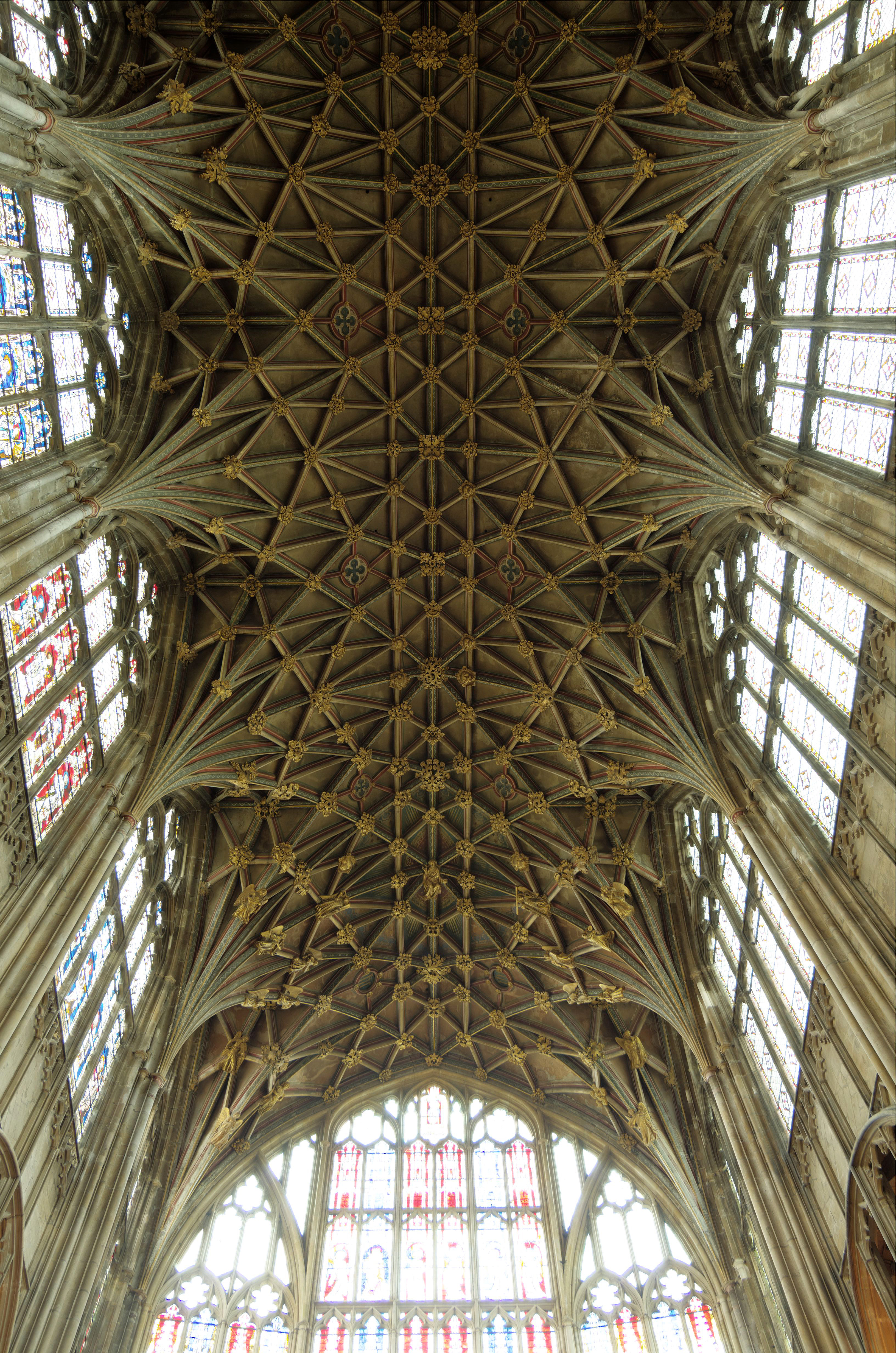 Gloucester Cathedral Vaulted Ceiling